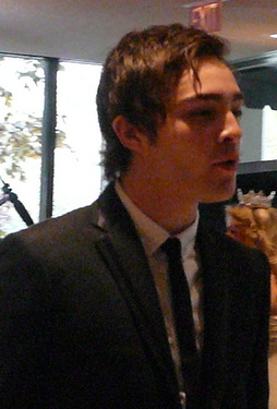 Ed Westwick (aka Chuck on Gossip Girl)